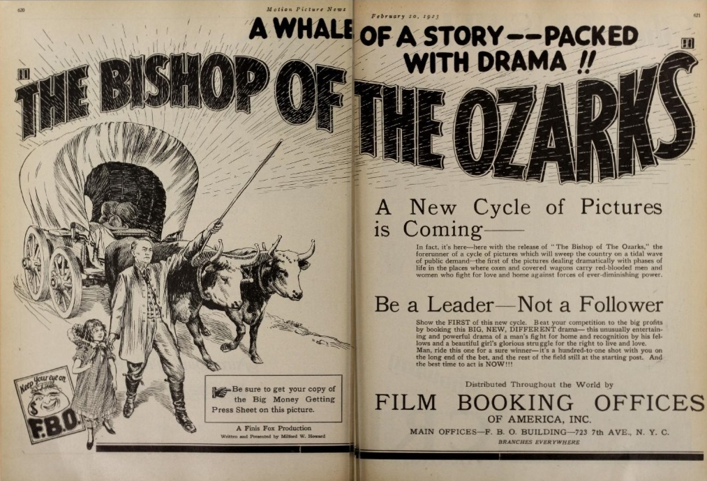 Advertisement for American silent film, The Bishop of the Ozarks, in Motion Picture News, February 10, 1923, pages 620 and 621.